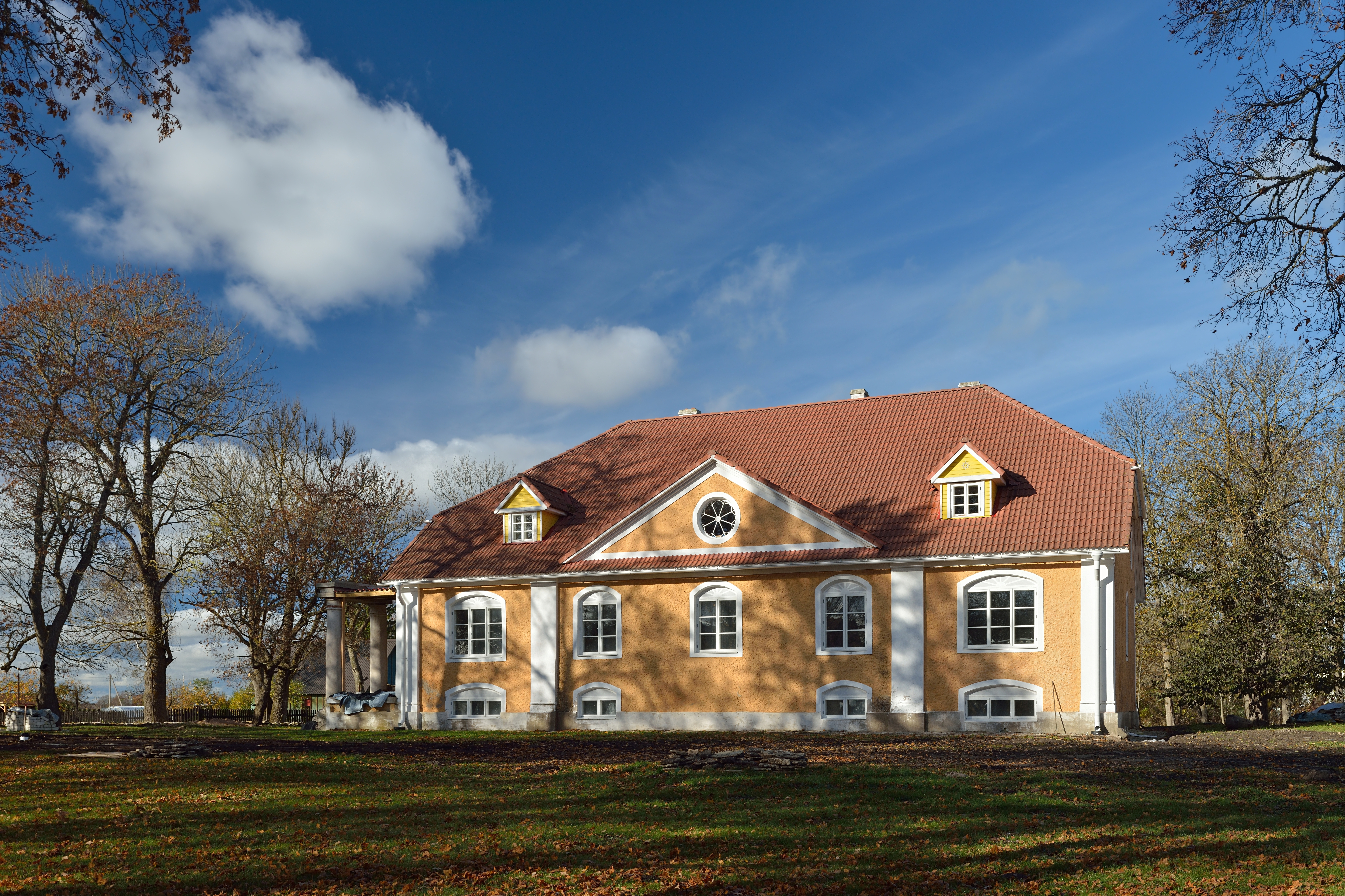 Annikvere manor main building